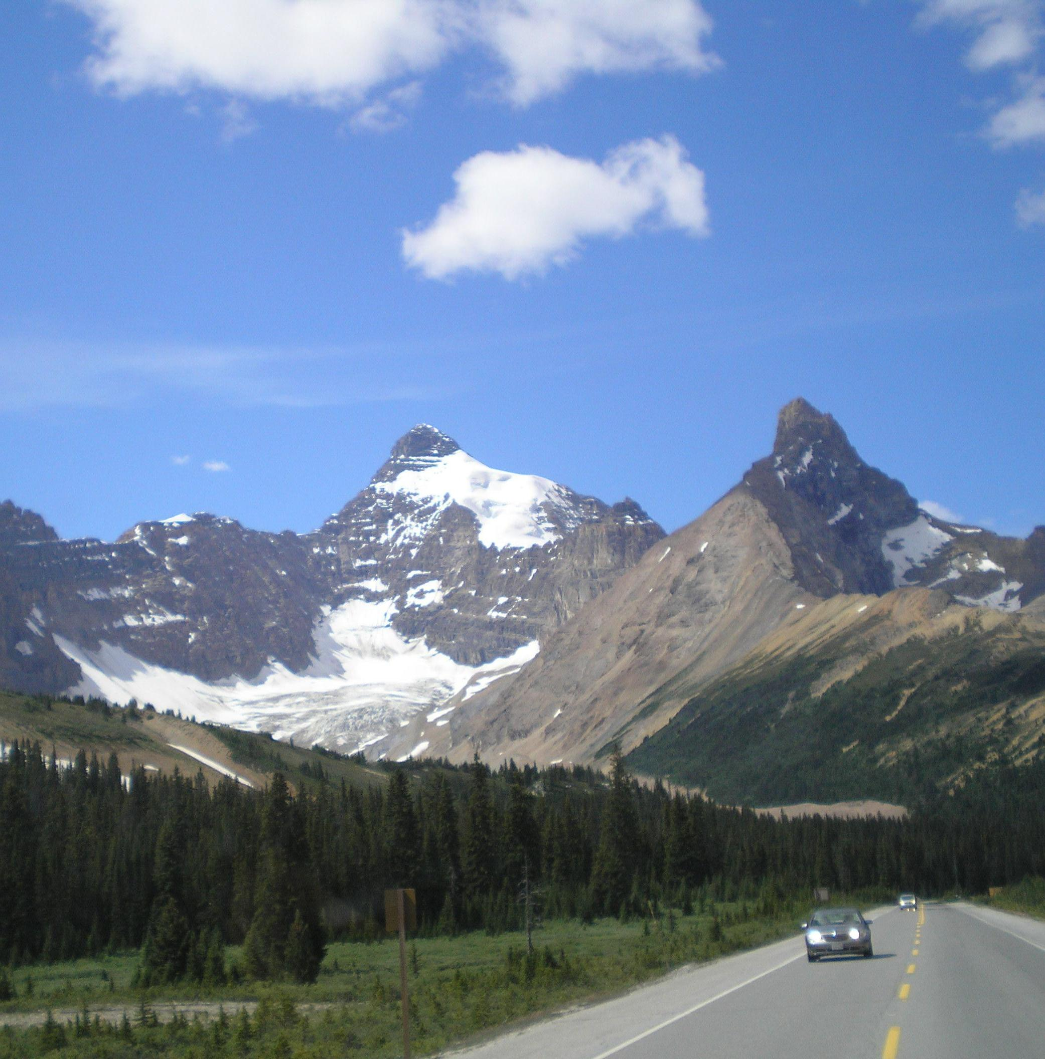 Icefields Parkway and Mount Athabasca in Alberta, Canada.